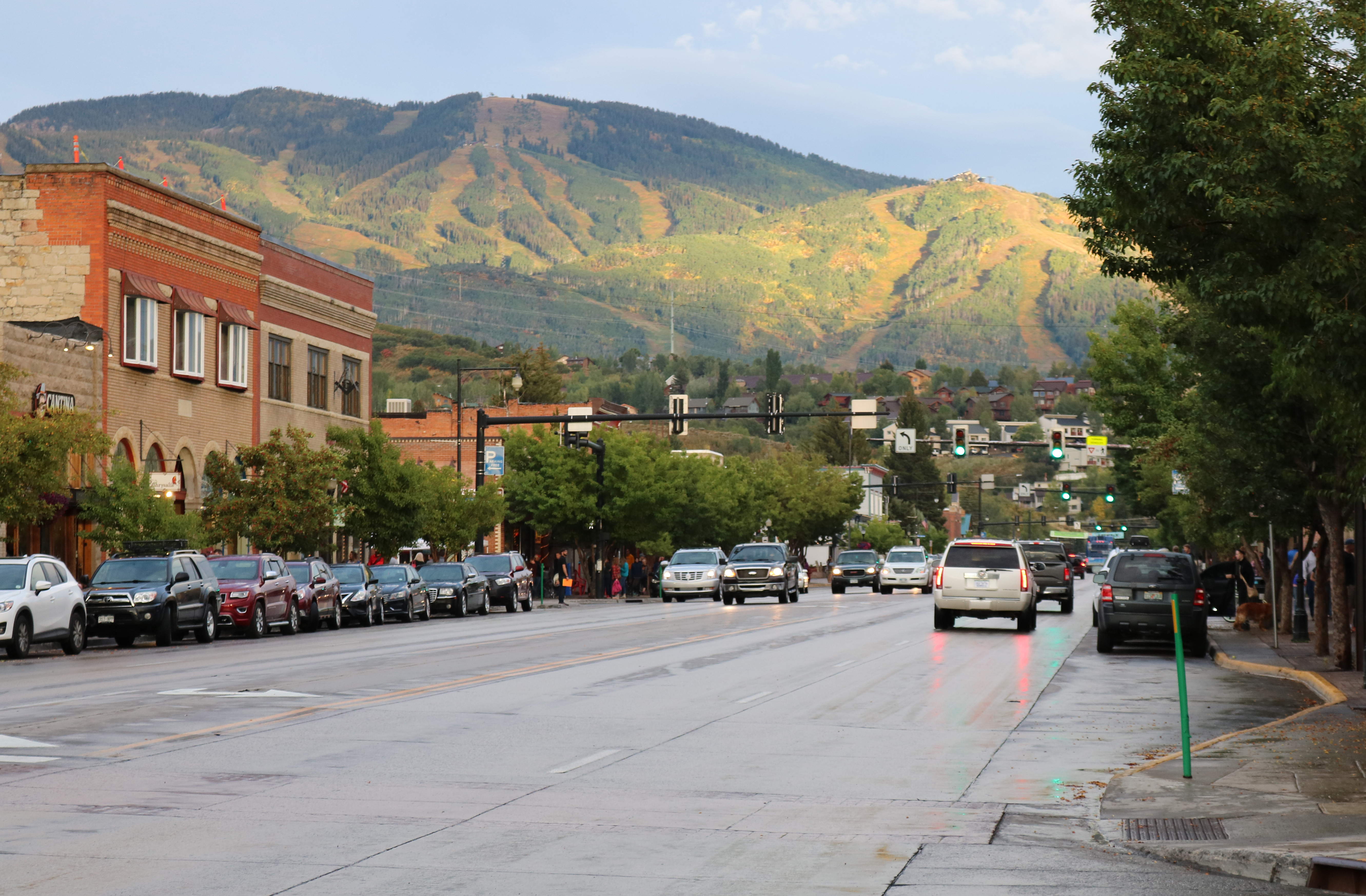 Mount Werner in Routt County, Colorado. The view is from Lincoln Avenue in Steamboat Springs. The mountain is home to the Steamboat Ski Resort. Its former name is Storm Mountain.